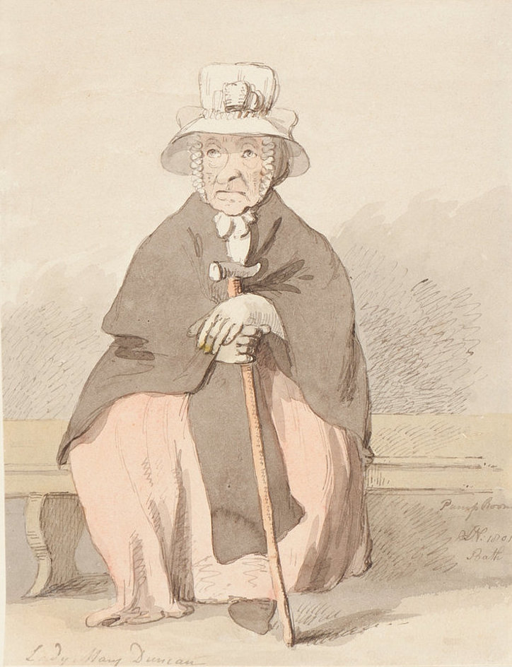 One drawing is pen and ink, the other is ink and watercolor. Approximately 5 x 3.75 inches and 8 x 6 inches, respectively. Both are mounted and matted together. It is unknown who did the smaller drawing, but the larger one is done by John Nixon. Caption: Lady Mary Duncan at Bath, 1801. c. 1755 John Nixon 1818